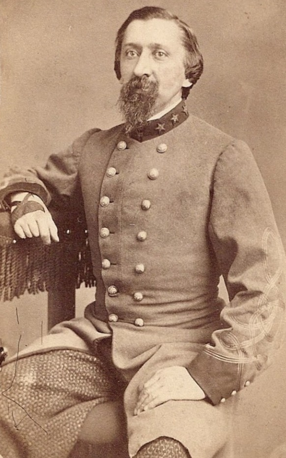 Photo of Colonel Augustus Forsberg, 51st Virginia Infantry, CSA, while a convalescent in Lynchburg, Virginia 1864.